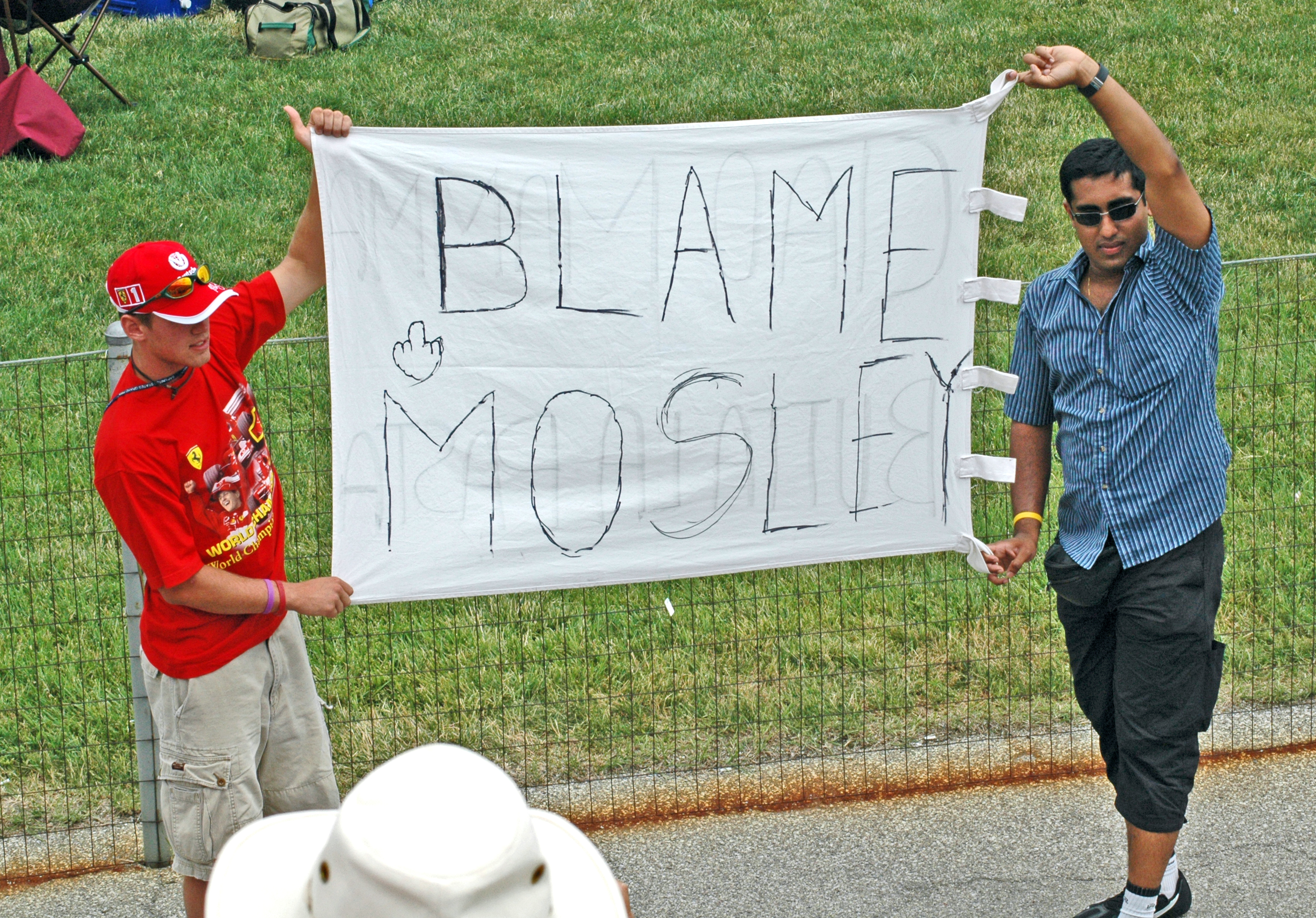 Two disgruntled Formula One fans holding a "Blame Mosley" banner at the 2005 US Grand Prix